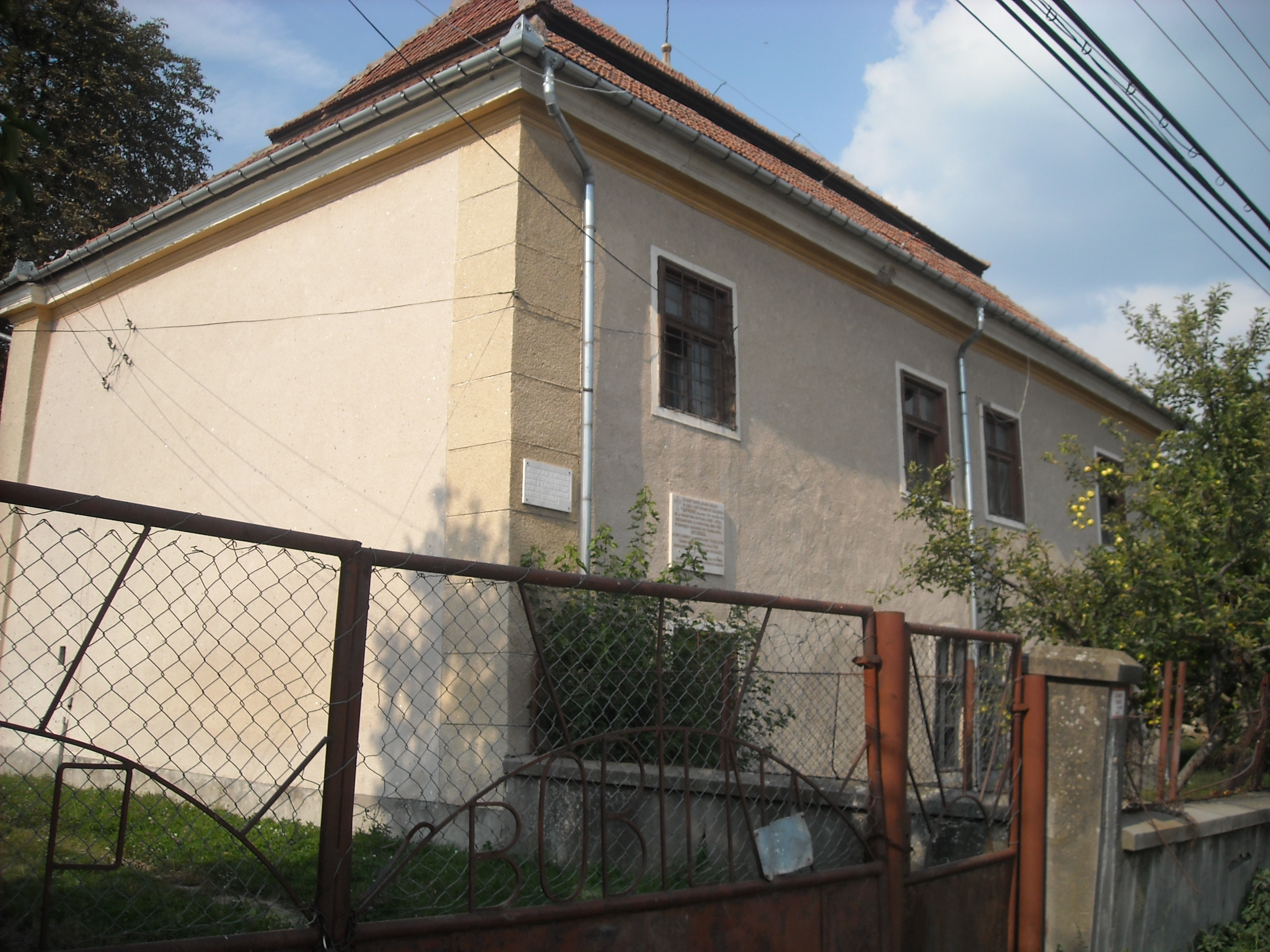 mansion of the Veress family in Bobâlna (Bábolna) village, Hunedoara County, Romania